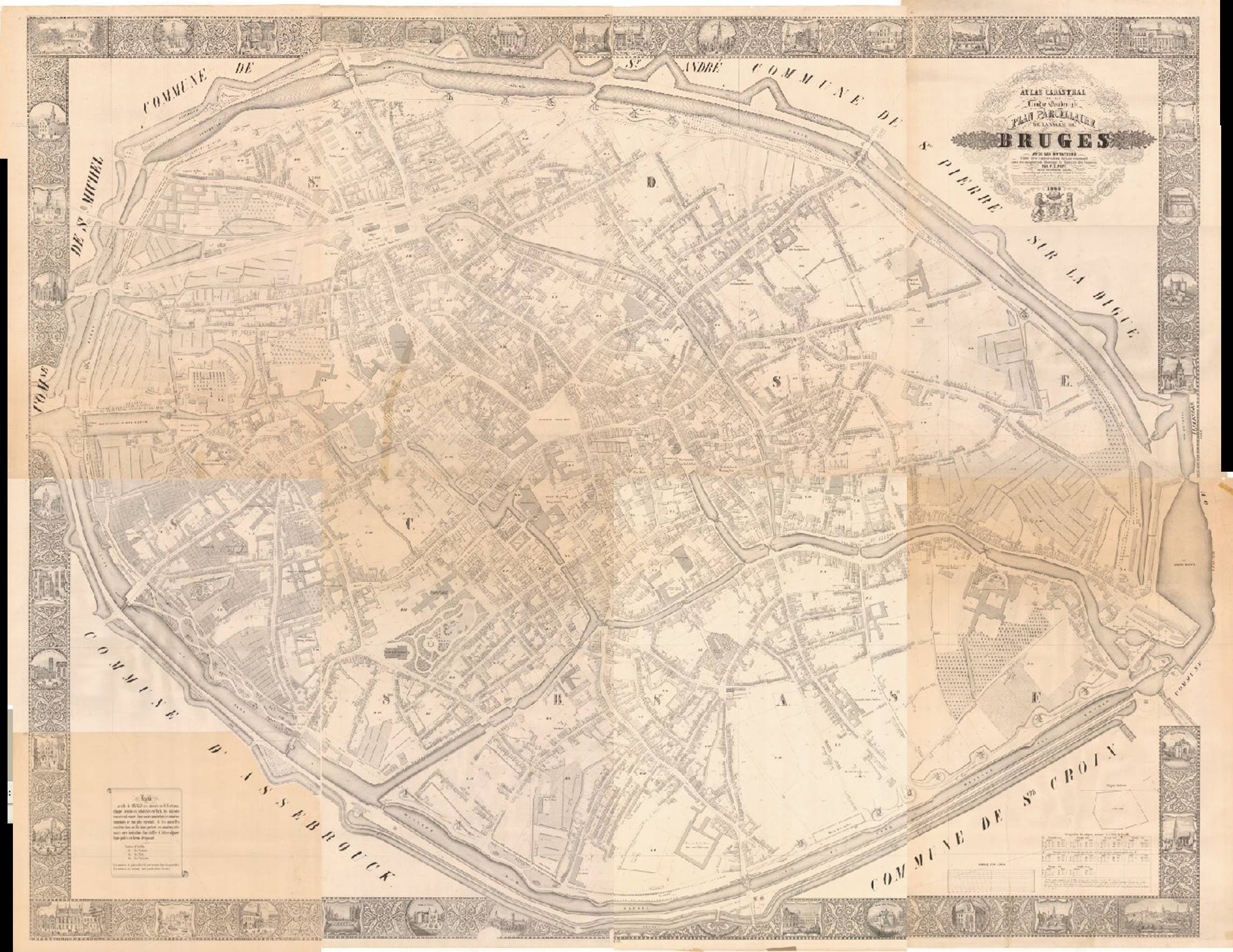 Plan_parcellaire_de_la_ville_de_Bruges,_1865,_Belgium.png